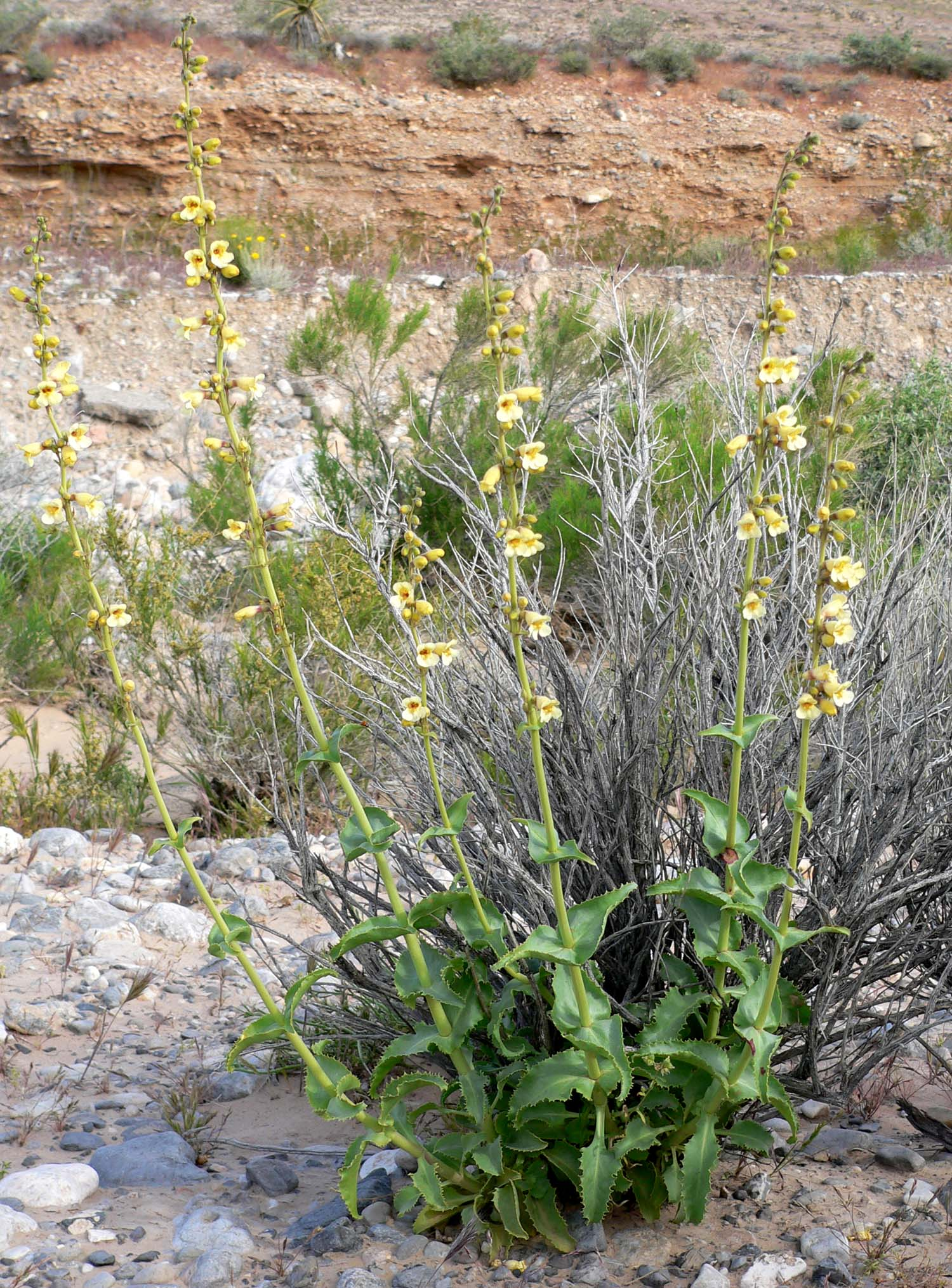 Photo of Penstemon bicolor in Red Rock Canyon, Nevada